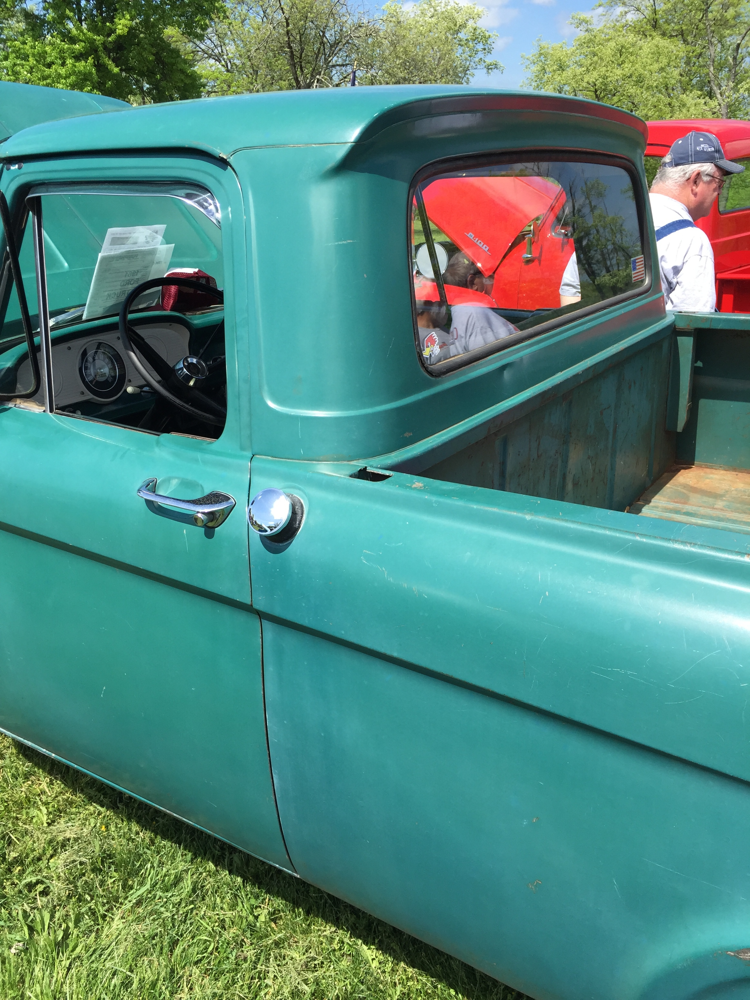 1961 Ford F100 Unibody (integrated the cab and the box into a single body) design. This is a factory original pickup truck. Photographed at 2015 Shenandoah Antique Automobile Club of America (AACA) meet.